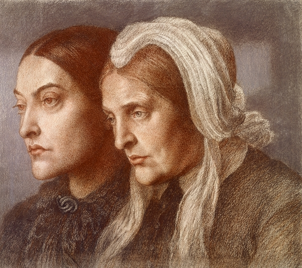 Portrait of the artist's sister Christina and mother Frances